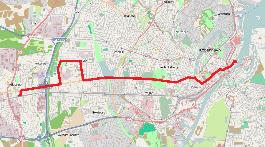 Map of Copenhagen bus line 550S between Glostrup Station and Kvæsthusbroen as of may 2003, when the line was closed.